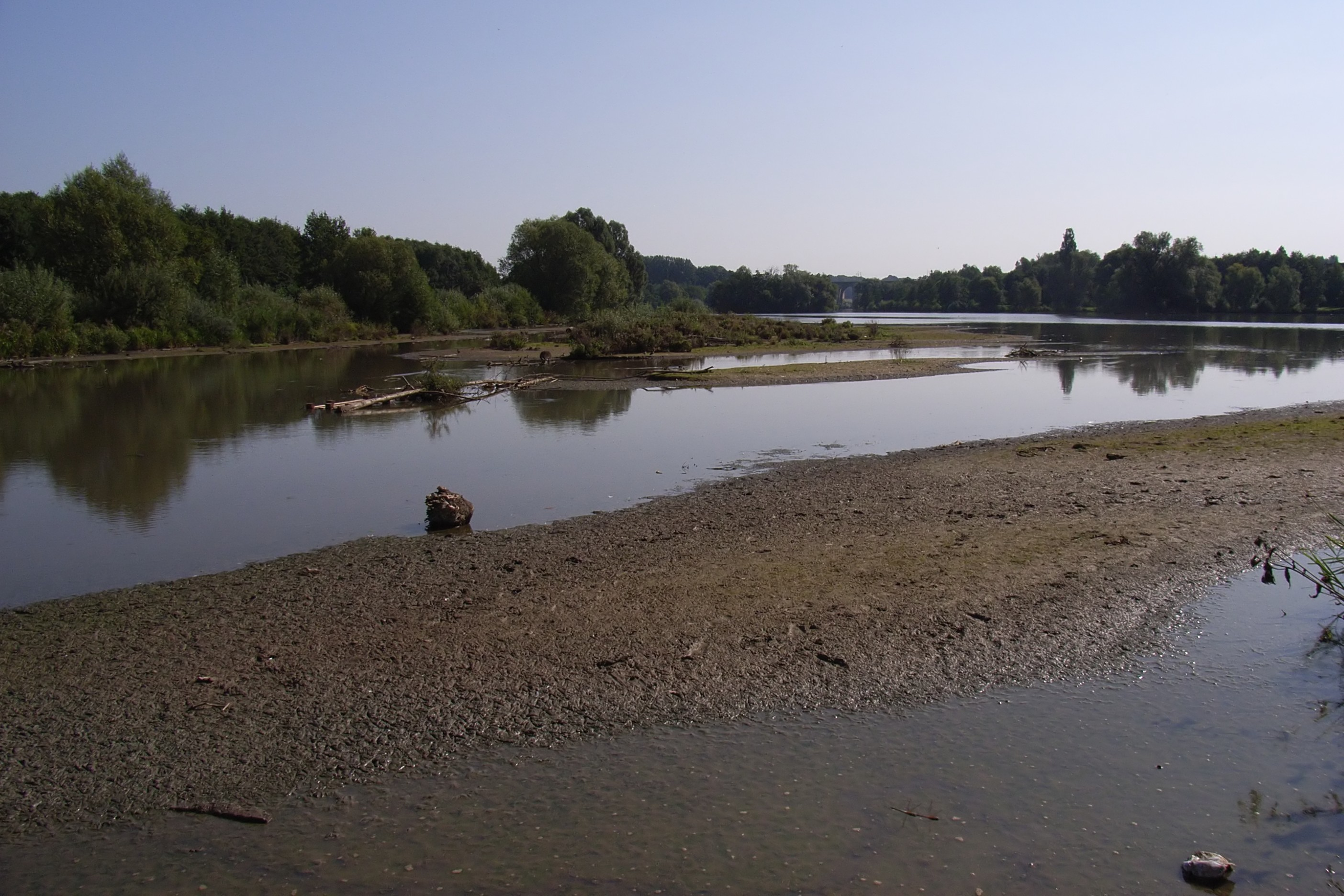 Bielefeld, Germany: Sedimentation in the Obersee